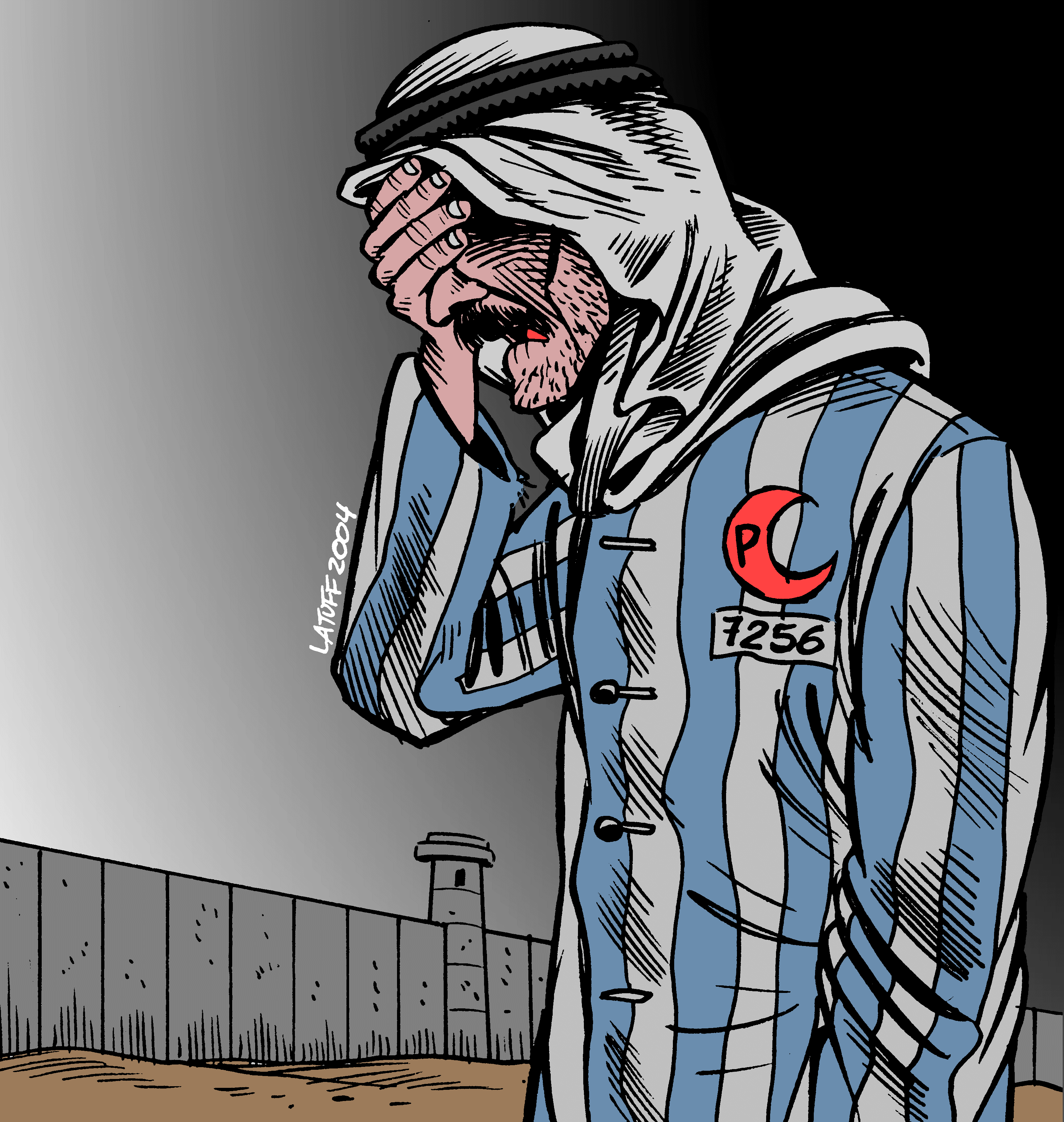 This image shared the second prize in the International Holocaust Cartoon Competition 2006.This page in other languages : English | German